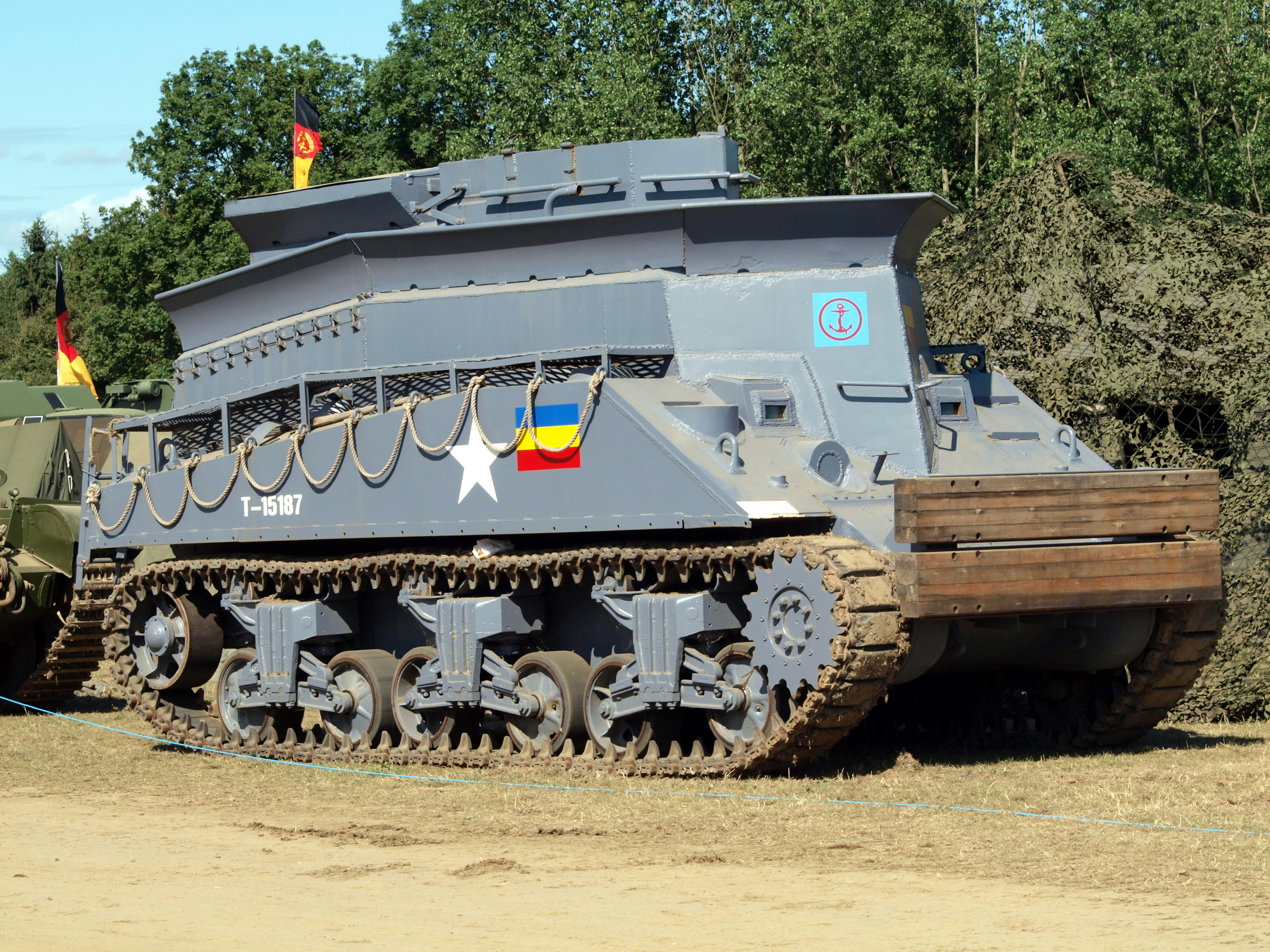 T-15187 Sherman BARV